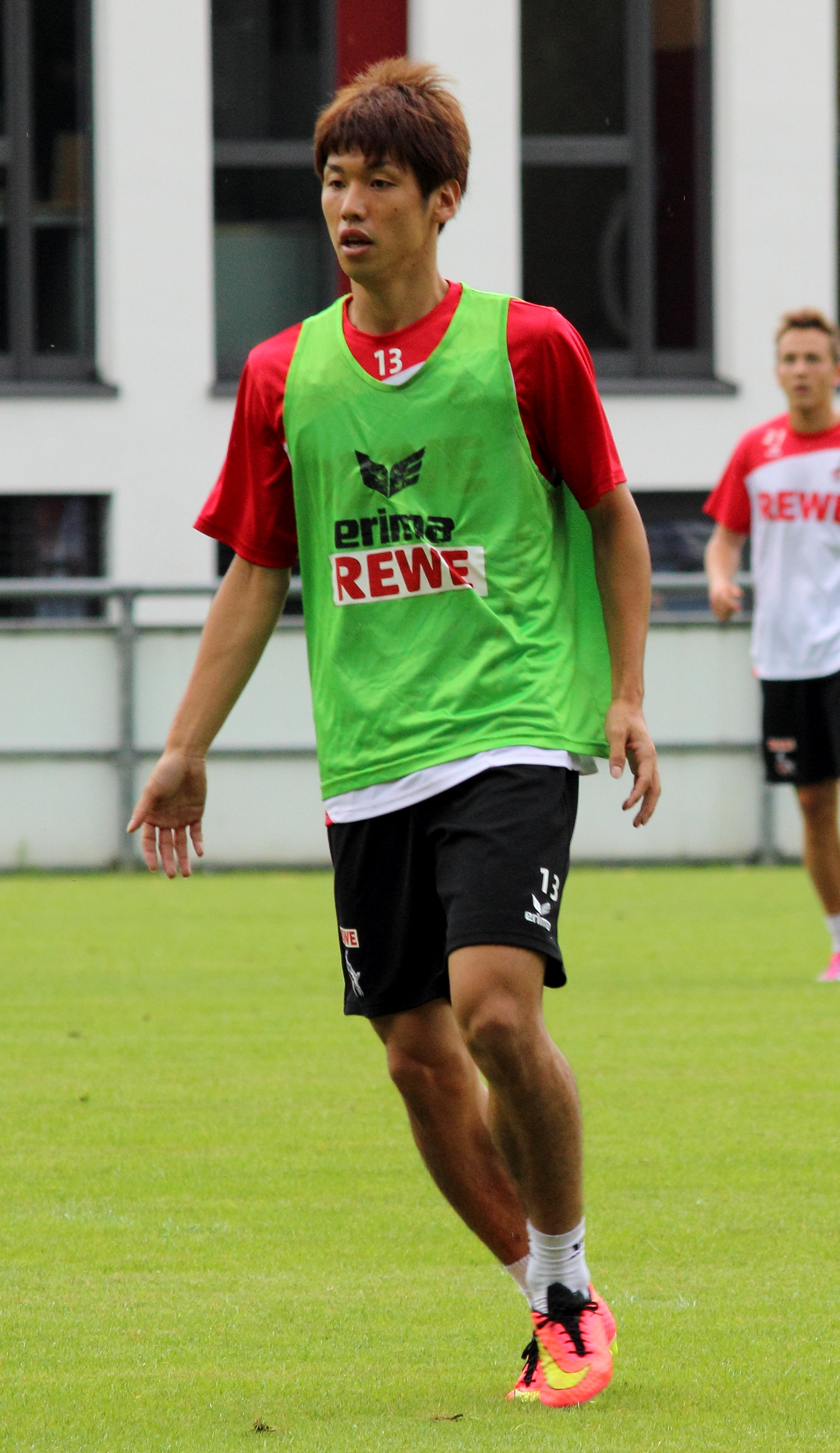 Yuya Osako in training with 1. FC Koln